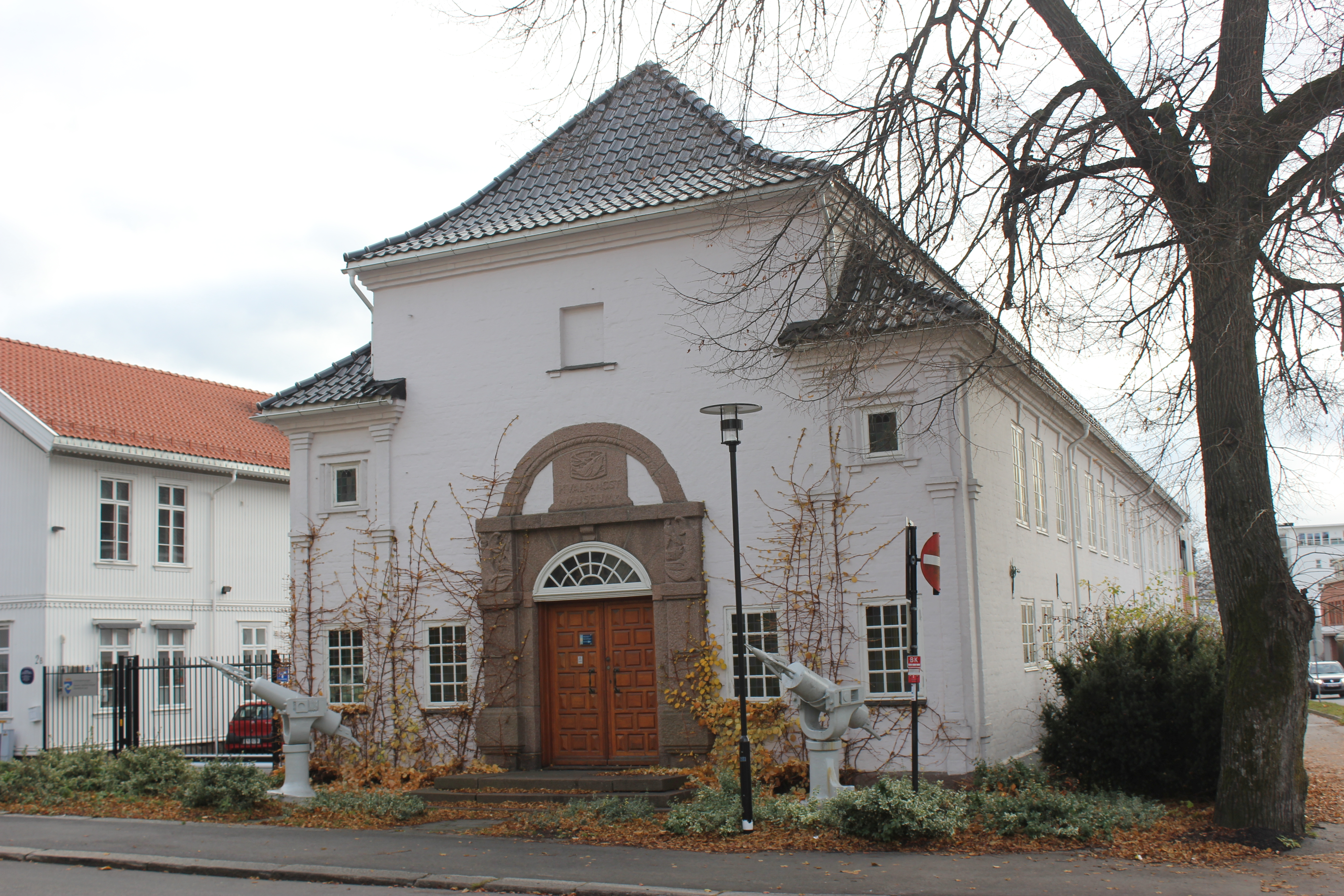 Sandefjord - Museum of Whaling